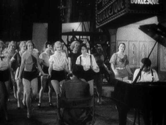 Frame from public domain trailer for 1933 Warner Bros. film 42nd Street showing uncostumed dance rehersal scene